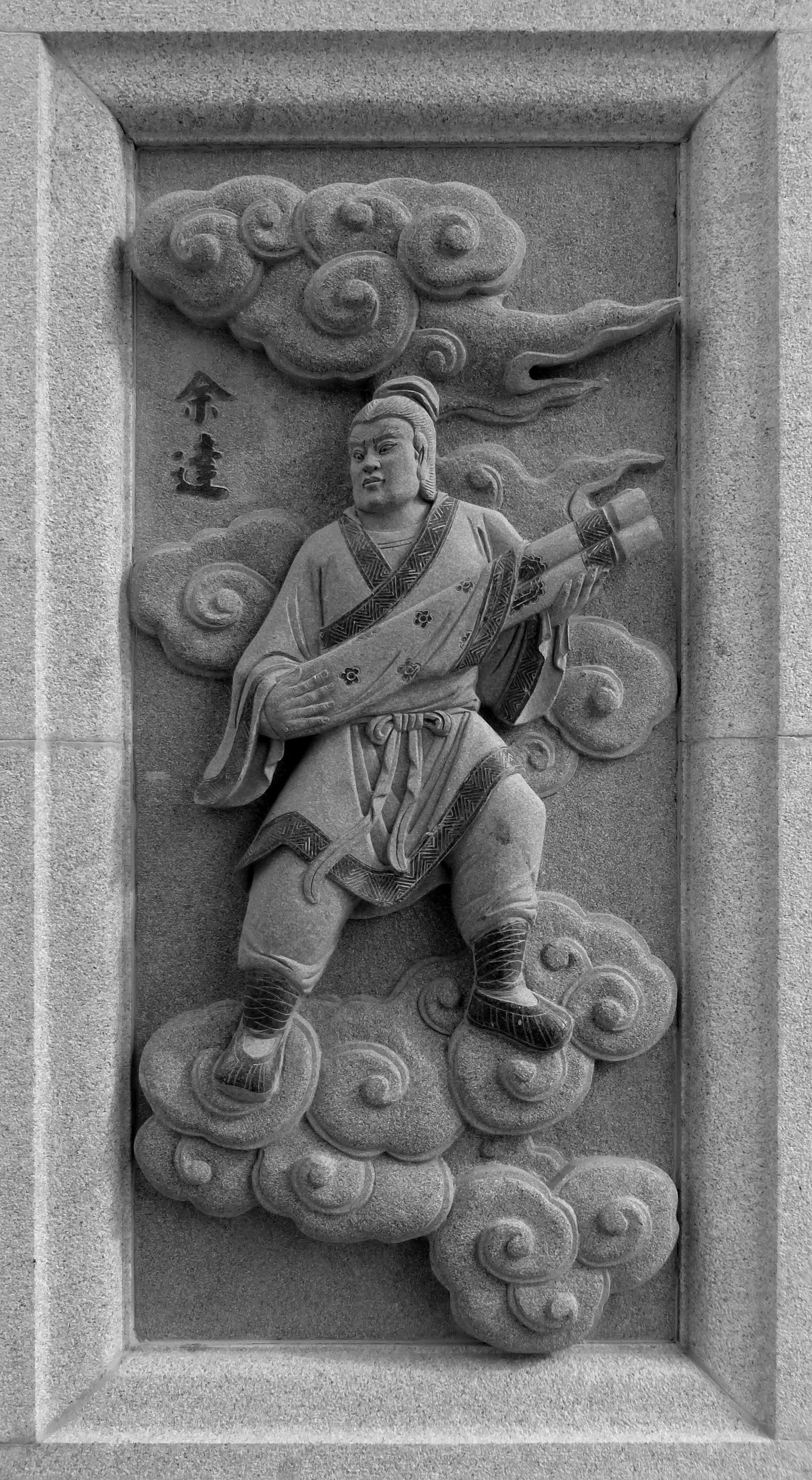 117 Yu Da, Investiture of the Gods at Ping Sien Si, Pasir Panjang, Perak, Malaysia Photograph from the Ping Sien Si Temple in Perak, Malaysia taken by Anandajoti.